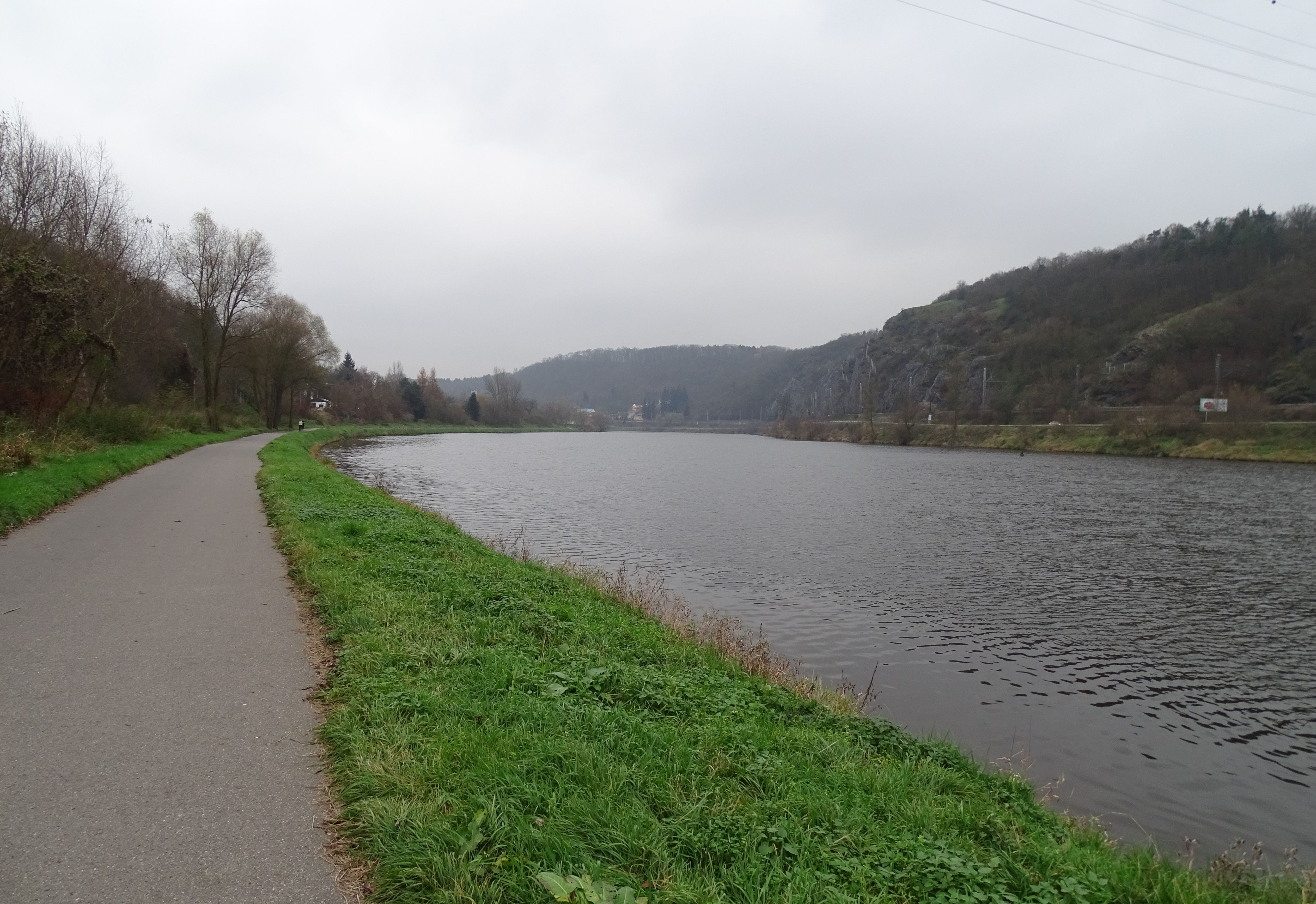 Prague-Bohnice and Sedlec, Czech Republic. Vltava river.